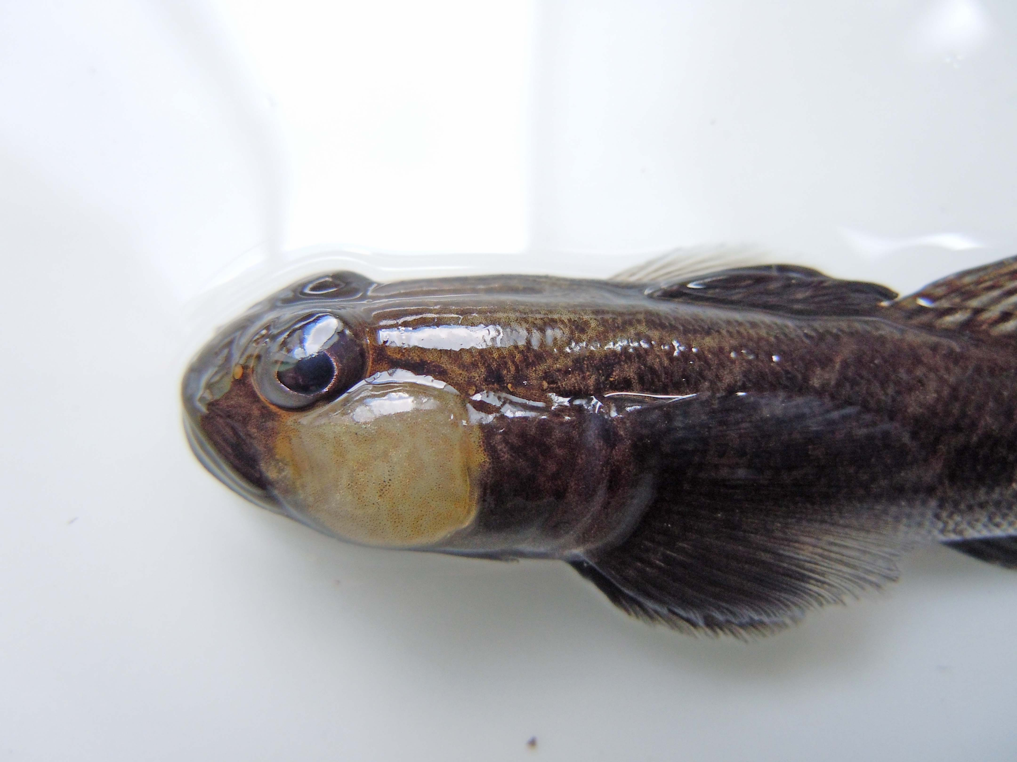 The head of the racer goby (Babka gymnotrachelus) from the Dnieper River near Kiev, Ukraine